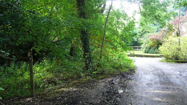 Two long distance paths share a signpost The Sussex Border Path is 137 miles long and the Serpent Trail is 64 miles long. In some places they are together and here is one such place.